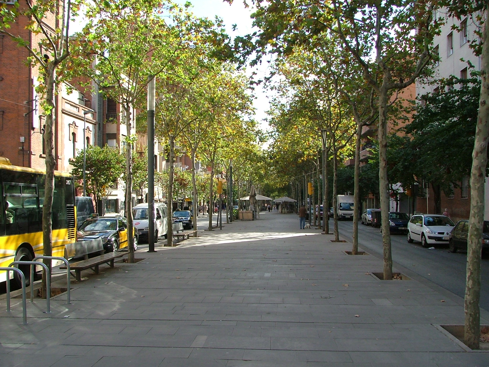 Sant Andreu's (Saint Andrew) rambla,Barcelona,Catalonia,Spain